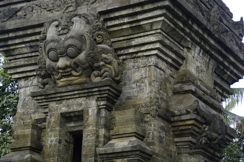 Candi Kidal, Tumpang, Malang, Jawa Timur